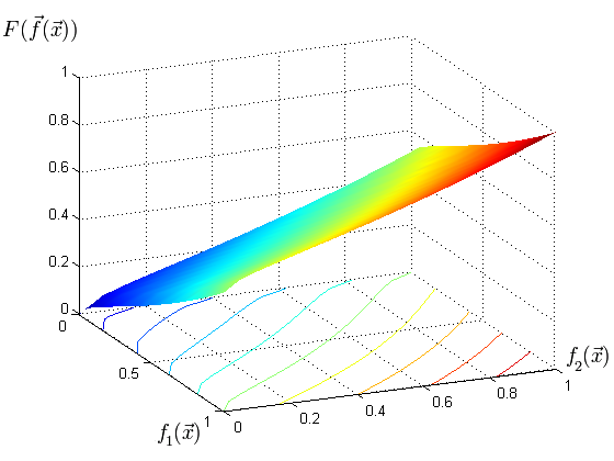 General utility for Desicion Making. Modified polinomial one.